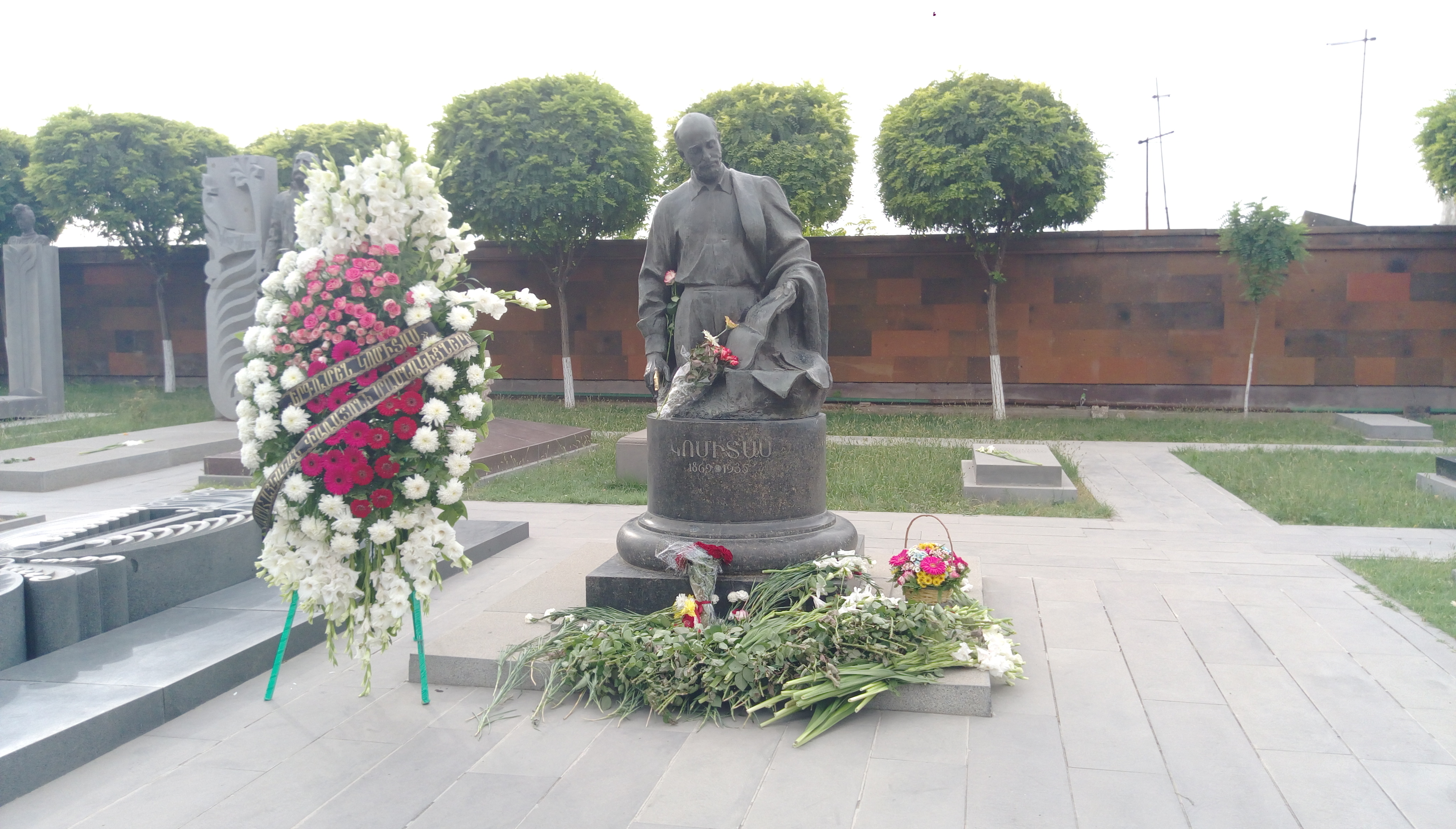 Gomidas Bantheon, Yerevan 6/18